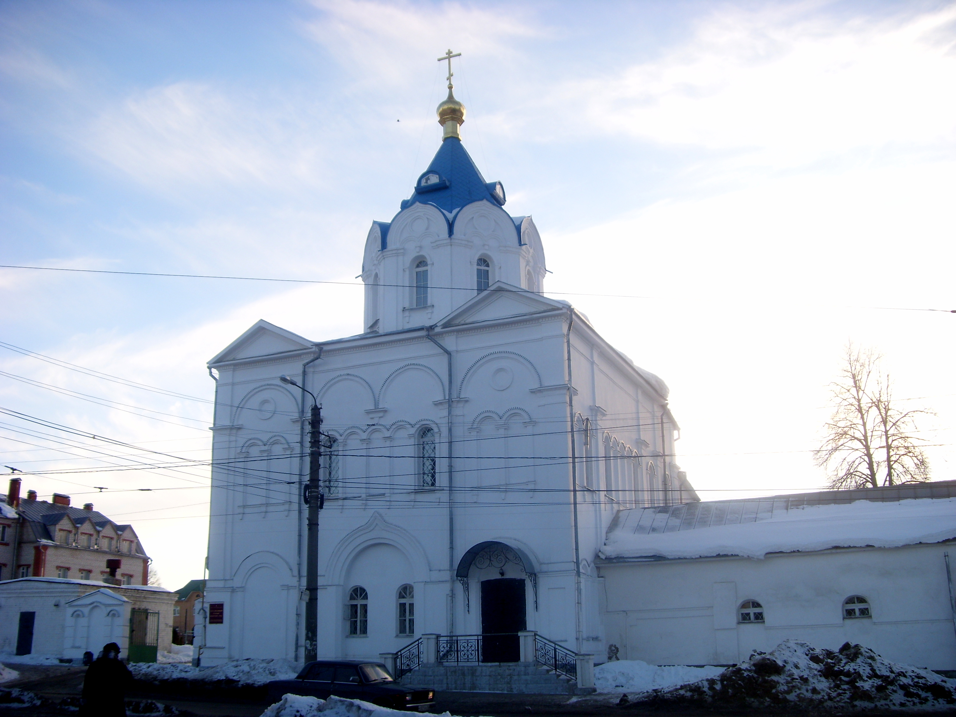 (Holy) Presentation convent (Vvedenskiy convent [Women's Monastery]) (Oryol). Gateway Church of Tikhvin - from 1st Kursk street.